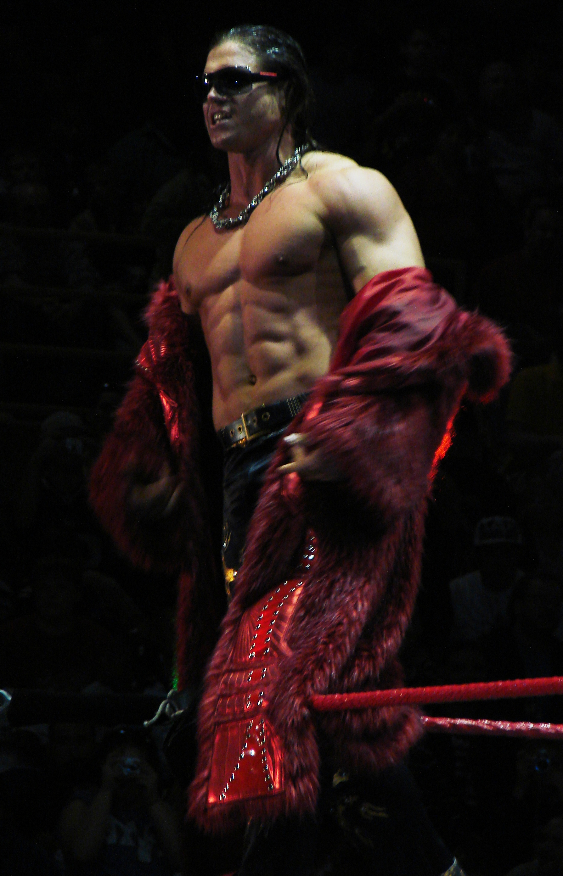 Johnny Nitro at a Raw live event. Valparaiso University, Valparaiso, IN, March 18, 2007.